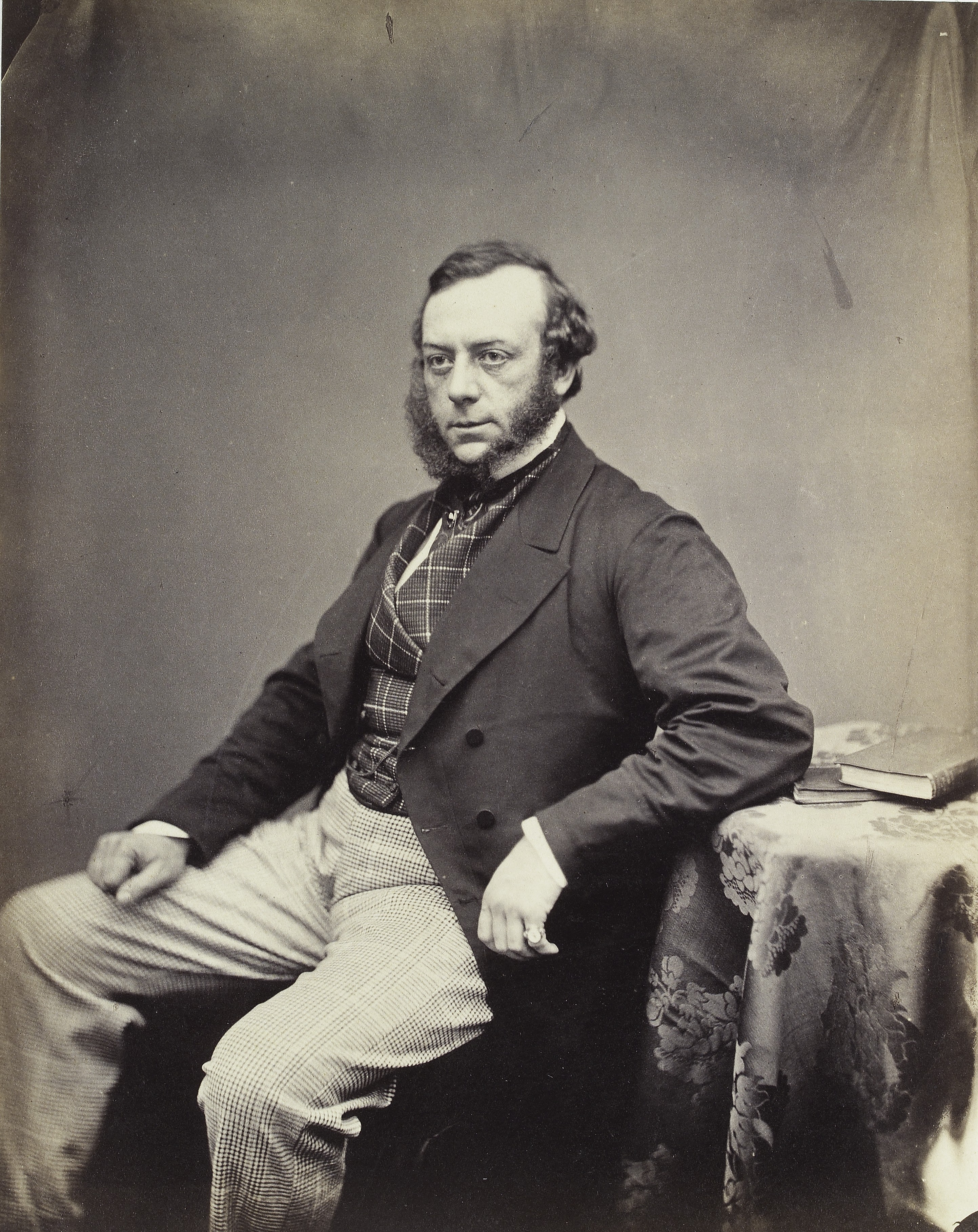 Portrait of John Eric Erichsen FRCS, a member of the St. Albans Medical Club General Collections Keywords: Portraiture